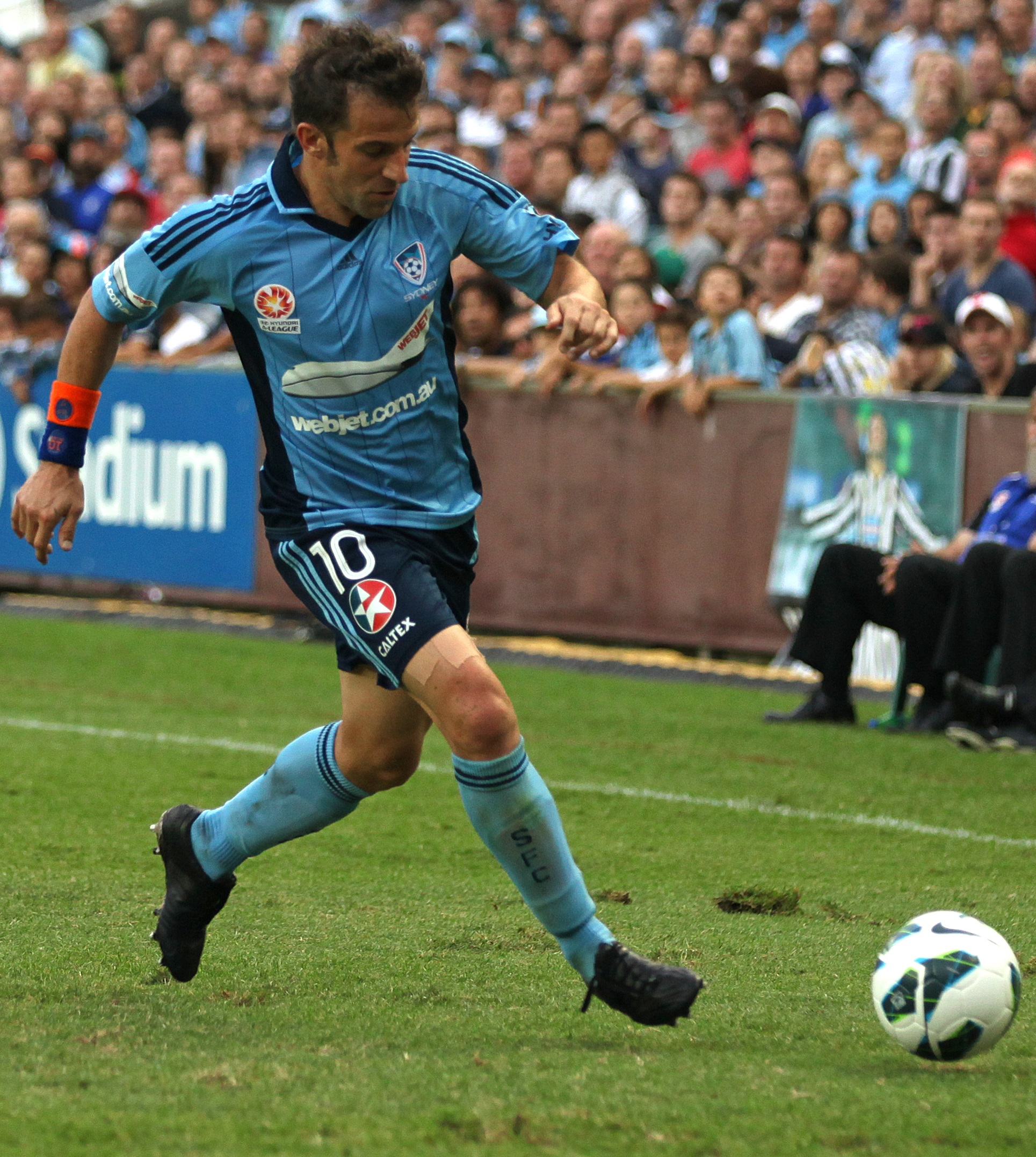 Cropped version of File:Alex Del Piero Sydney FC 3.jpg.